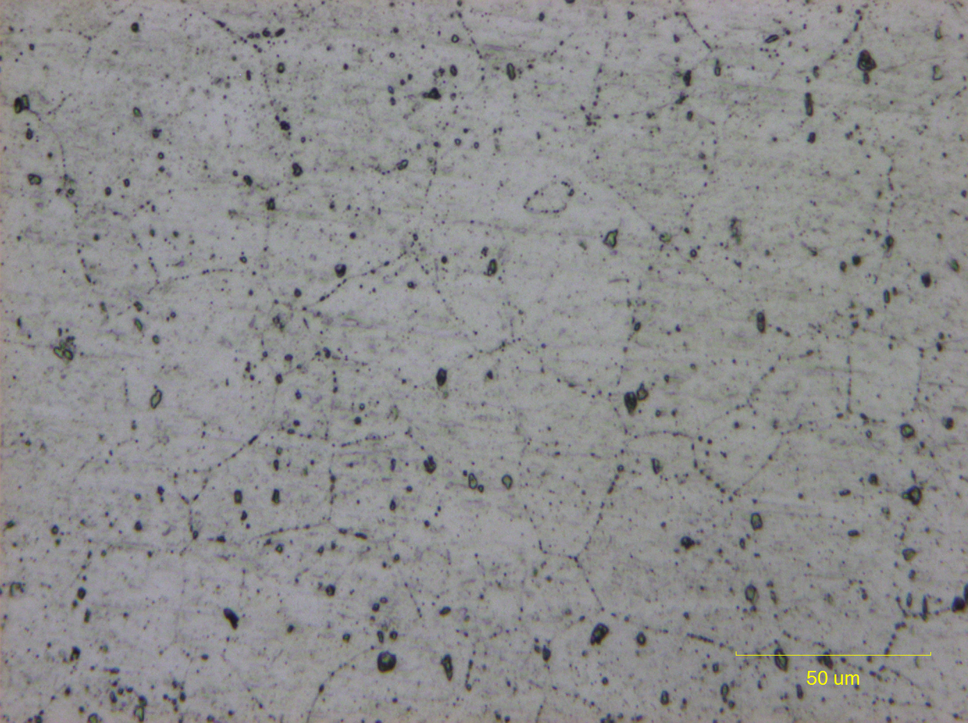 The image shows the top surface of 6061-T6 aluminum 12.6mm thick plate which has been polished using colloidal silica and etched for 55s using Keller's reagent. The acids in the etchant have preferentially attacked material at the grain boundaries and secondary phases and inclusions such as Mg2Si and insoluble Fe3SiAl12or (Fe, Mn, Cr)3SiAl12 .